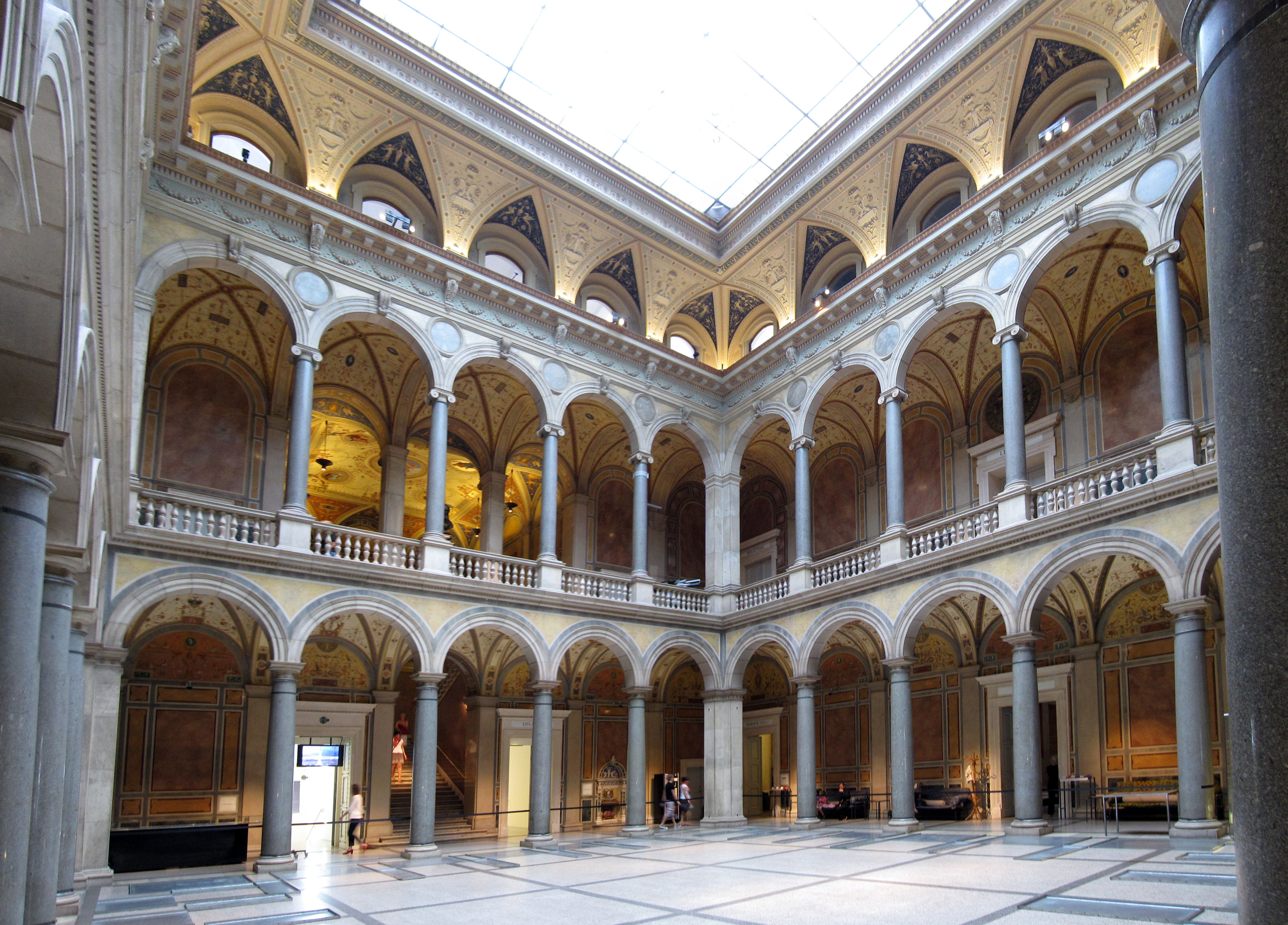 Austrian Museum of Applied Arts / Contemporary Art (MAK)